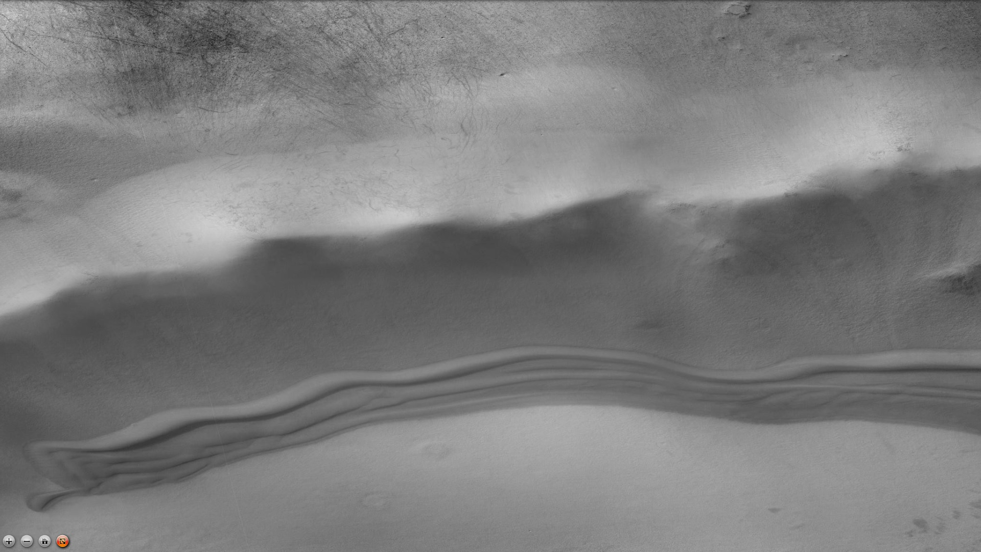 Trumpler Crater showing dunes along its northern wall, as seen by CTX. Note: Keeler is north of Trumpler. Dark streaks at top of image are dust devil tracks in Keeler.